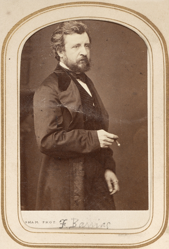 Cartes de visite portrait of the nineteenth century artist Félix-Joseph Barrias, made between 1856 and 1880